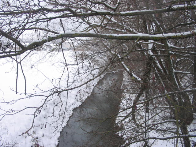 Narayivka river in Pidvysoke, Berezhany district, Ternopil region, western Ukraine